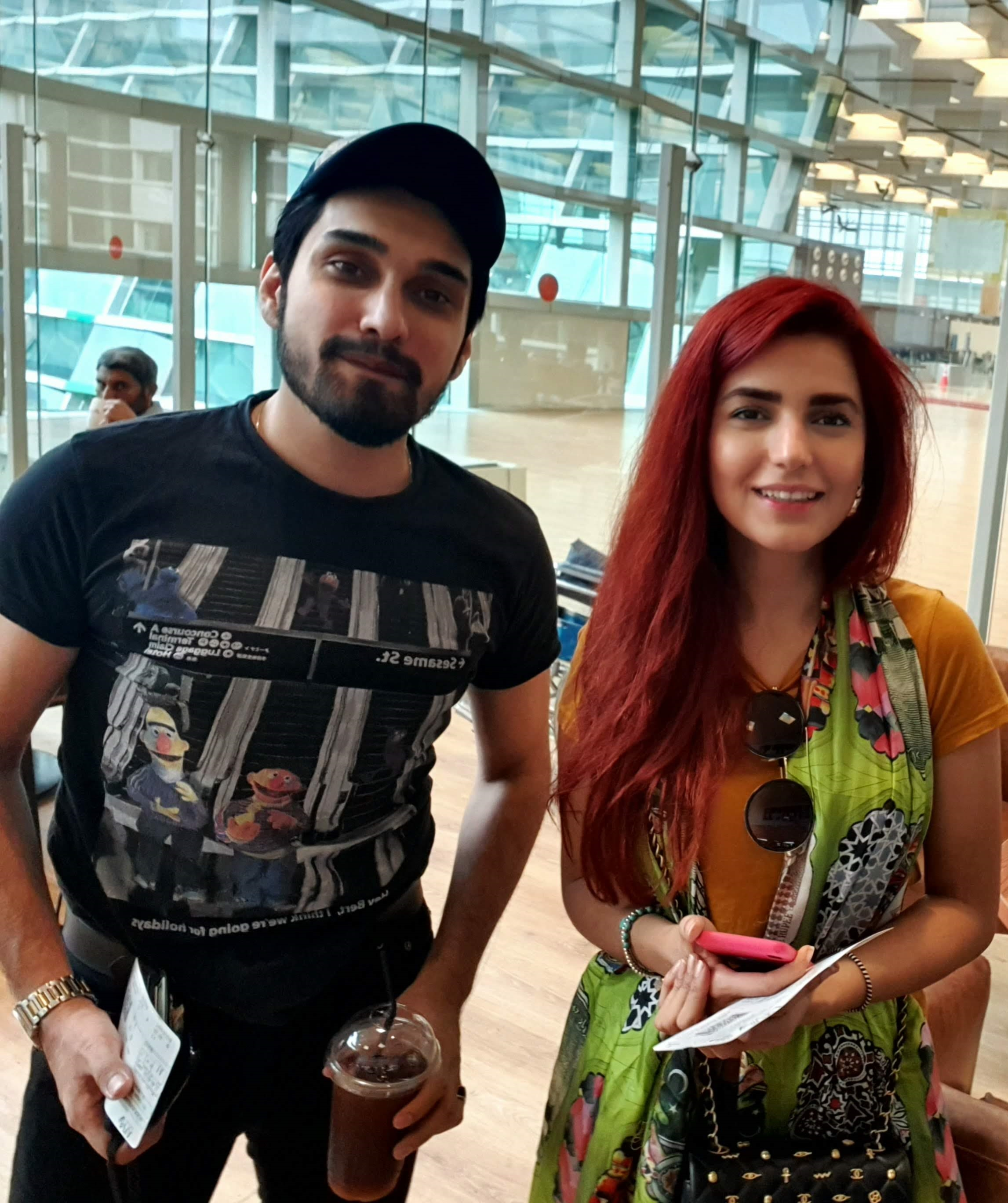 This is a picture of Momina Mustehsan and Uzair Jaswal at New Islamabad Airport